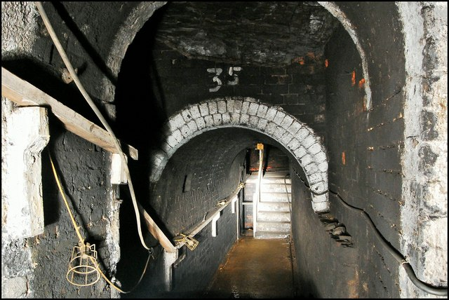 Standedge tunnel connecting passage